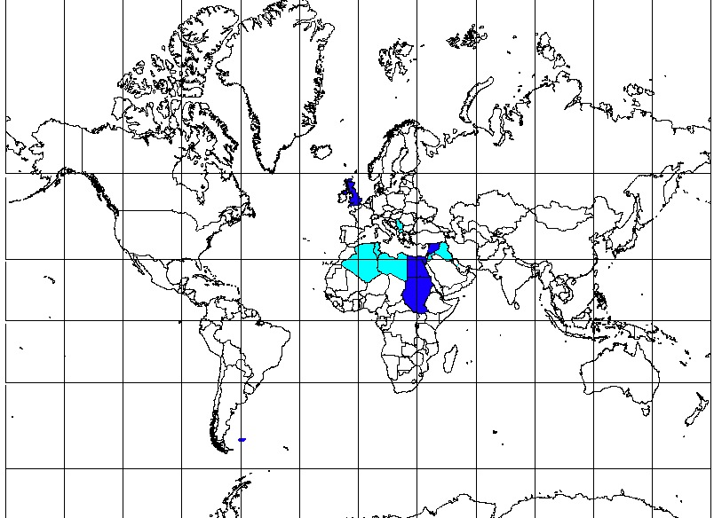 Countries in dark blue are where the pound is the official currency. Countries in light blue are where the dinar is the official currency.